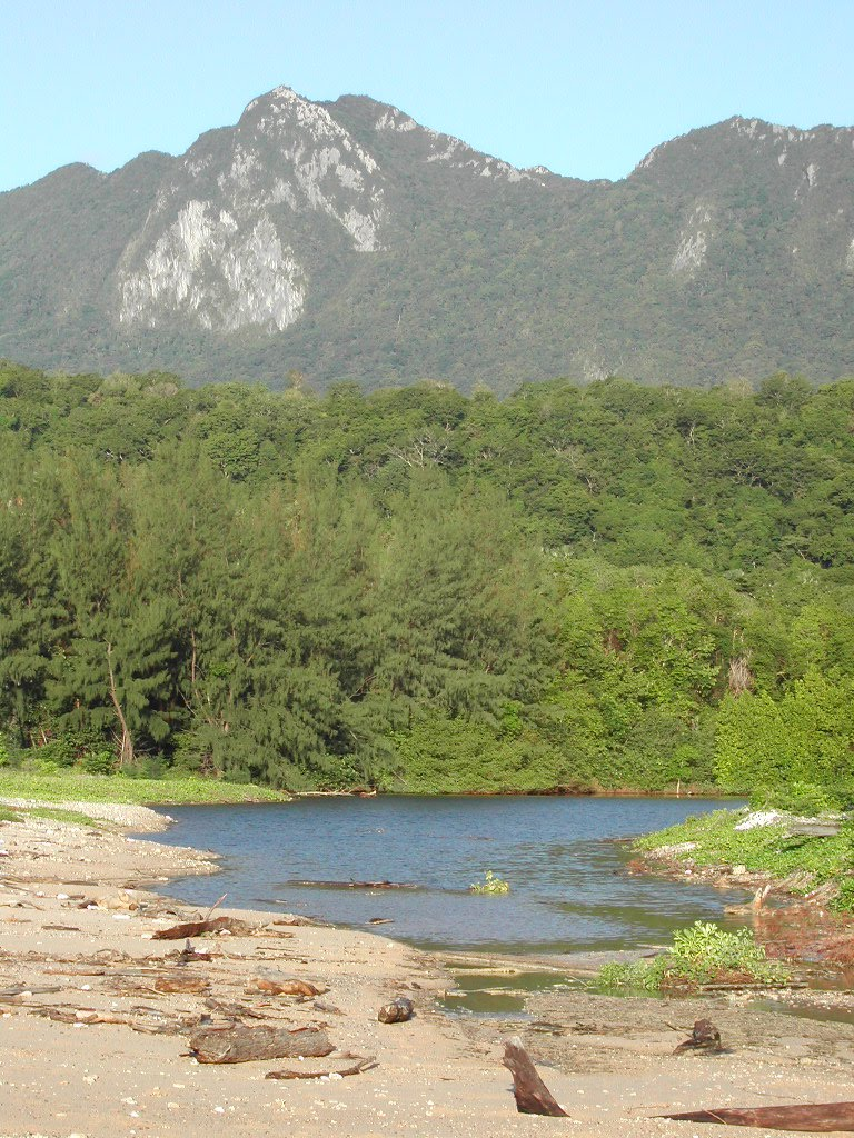 Vero River estuary with karst Paitchau Range backdrop, Vero River, Tutuala, Lautem, Timor-Leste